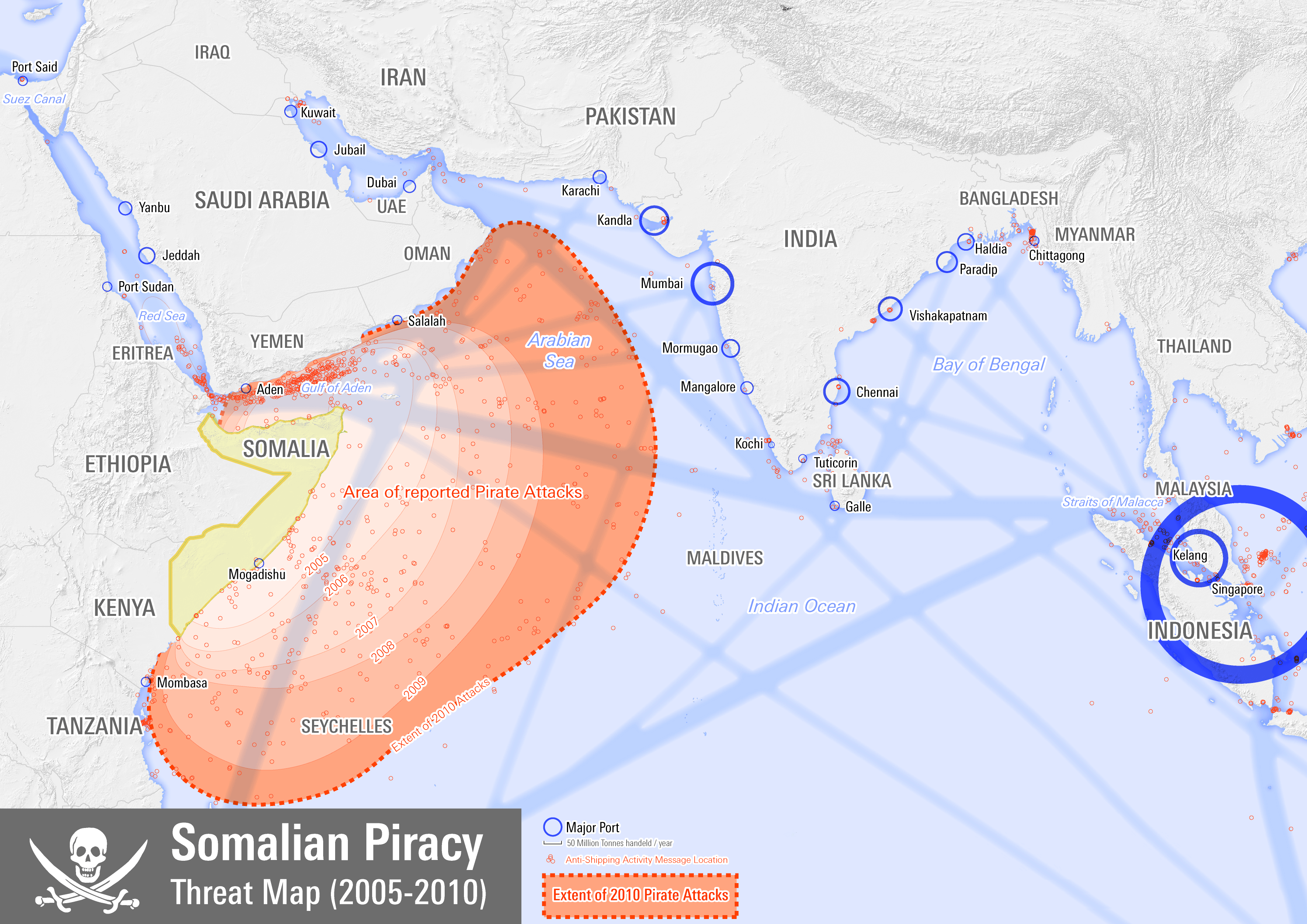 Map showing the extent of Somali pirate attacks on shipping vessels between 2005 and 2010.